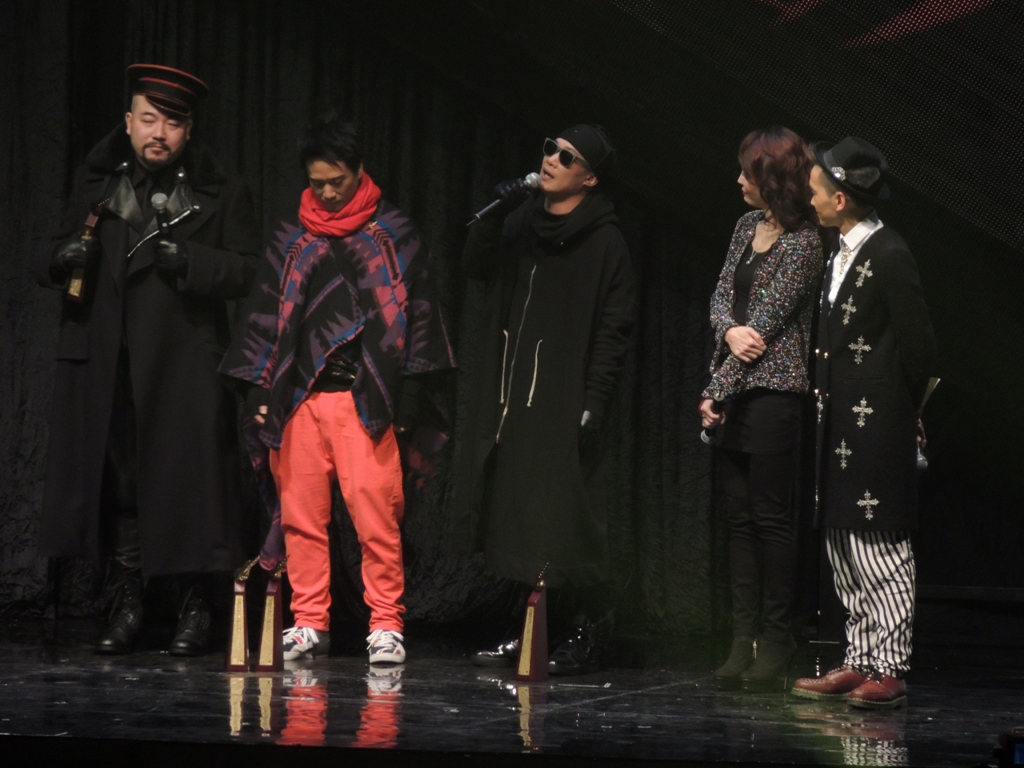 Eason Chan @ Ultimate Song Chart Awards 2012